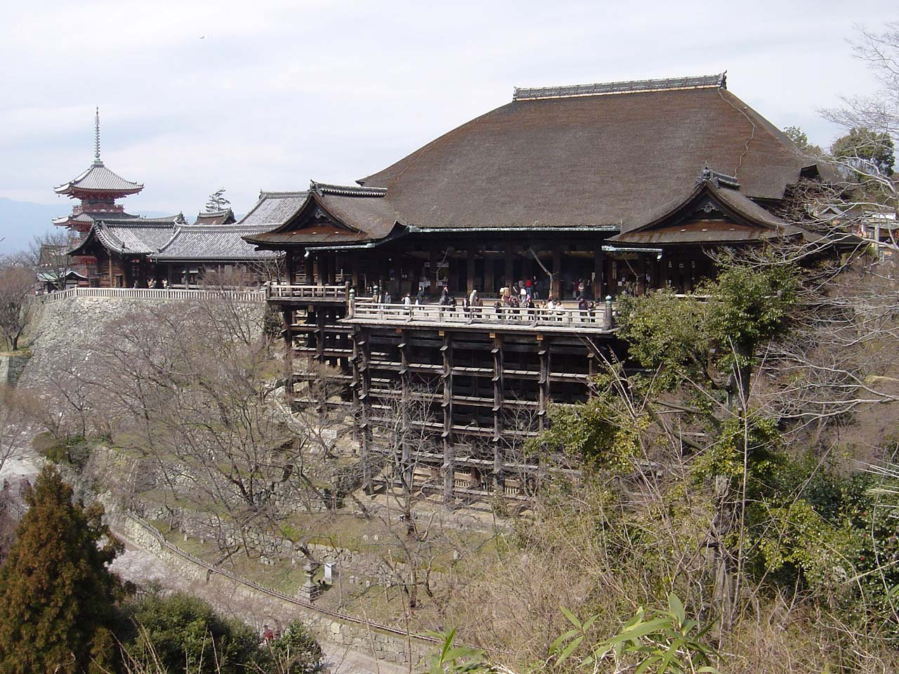 Photo taken by Bobak Ha'Eri. March 2005. Please observe license and properly cite in use outside Wikipedia. If you have any questions about the licensing, please feel free to use the contact information at my user page.